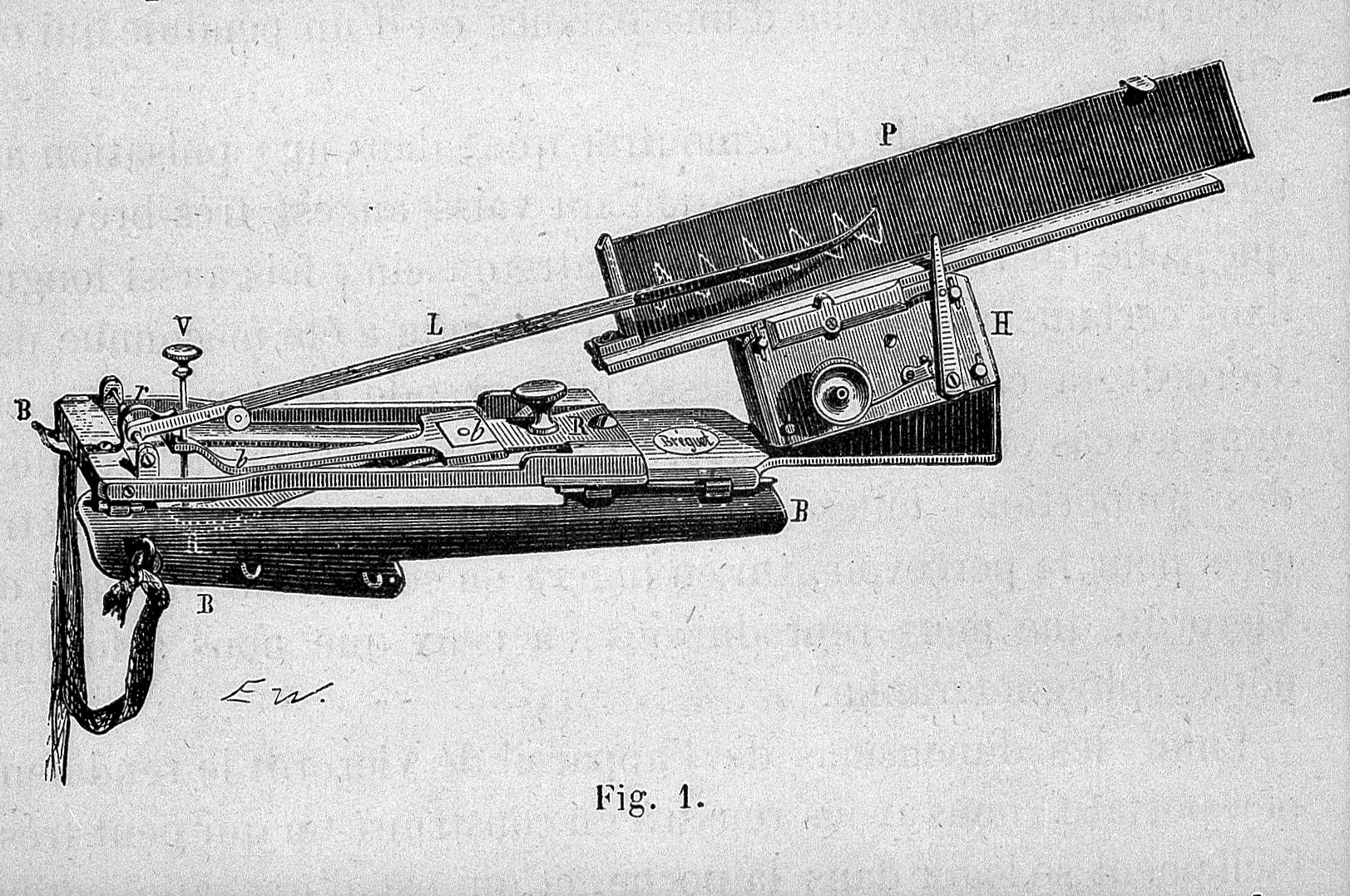 Marey's original sphygmograph by E.W. General Collections Keywords: pulse measurement; Physiology; Blood Pressure; Etienne Jules Marey